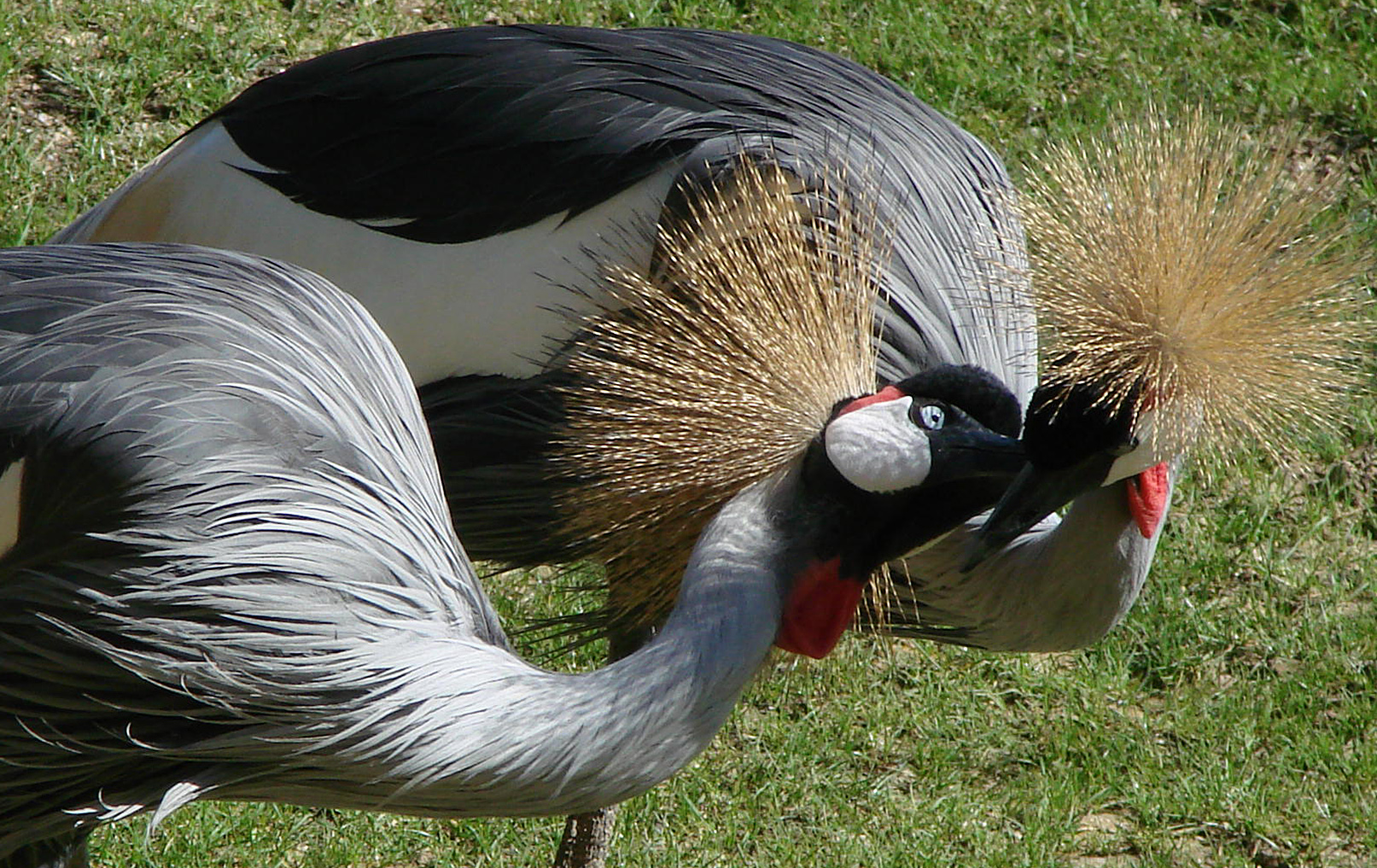 Grey crowned cranes (Balearica regulorum), zoo d'Amnéville, France.